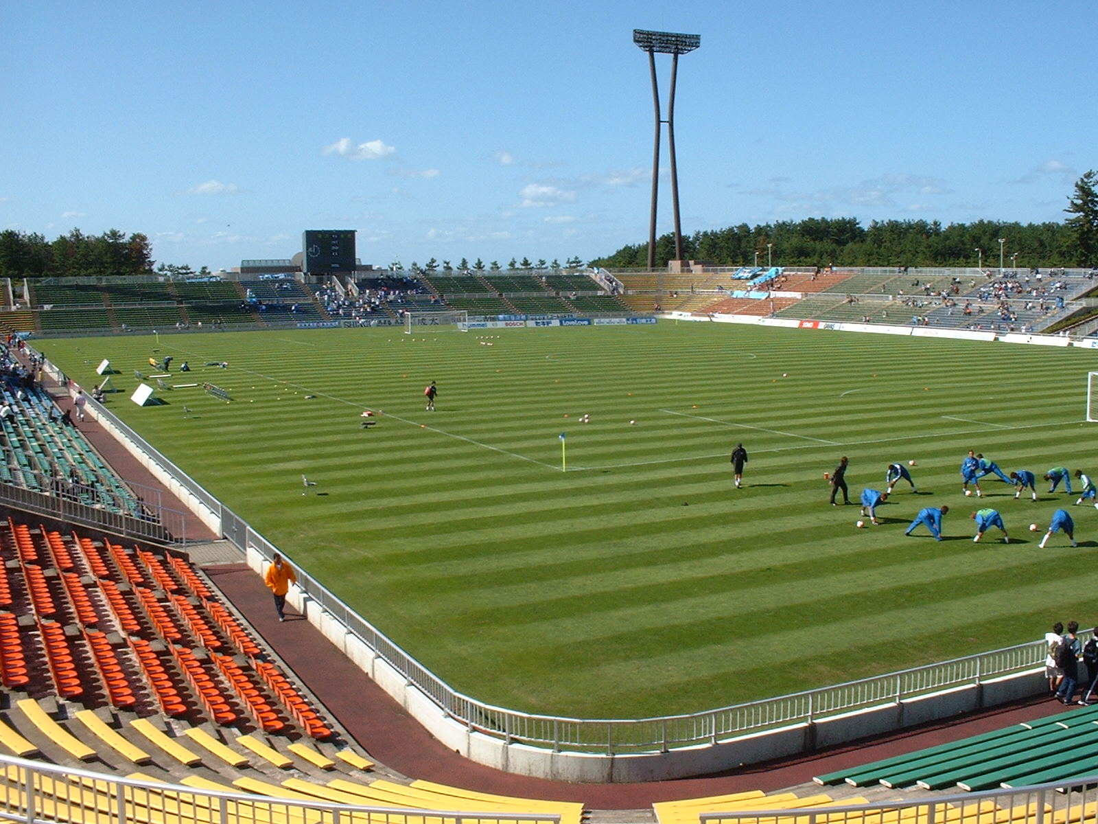 Technoport hukui Stadium. Sakai-City,Hukui-Pref,Japan